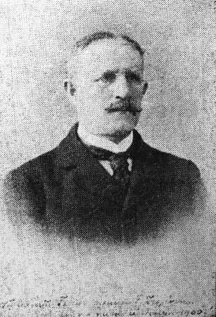 Periklis Zerlentis (1852-1925): Greek scholar